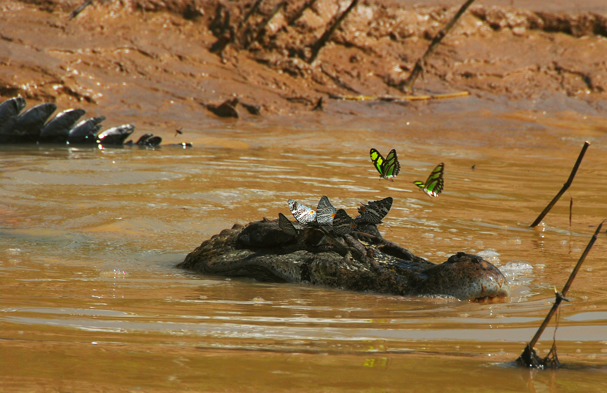 Black Caiman (Melanosuchus niger) local: Uacari Sustainable Development Reserve, Amazonas, Brazil.